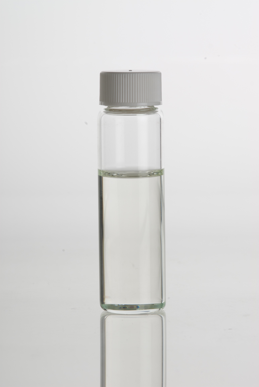 Rosemary (Rosmarinus officinalis) Essential Oil in clear glass vial